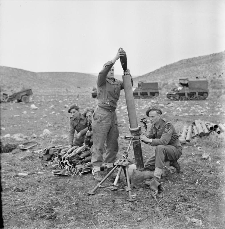 British Forces in the Middle East, 1945-1947 A 4.2 inch mortar team of the 2nd Battalion Middlesex Regiment on field exercise in Palestine.